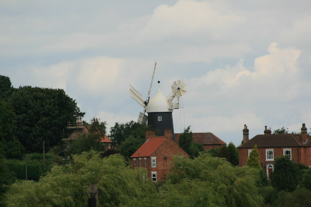 Tuxford Windmill Tuxford Windmill, part of a milling & baking business. Open to the public, the sails can be seen turning on most windy days.